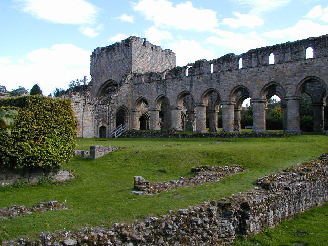 Buildwas Abbey. 12th century Cistercian Abbey along the banks of the River Severn.